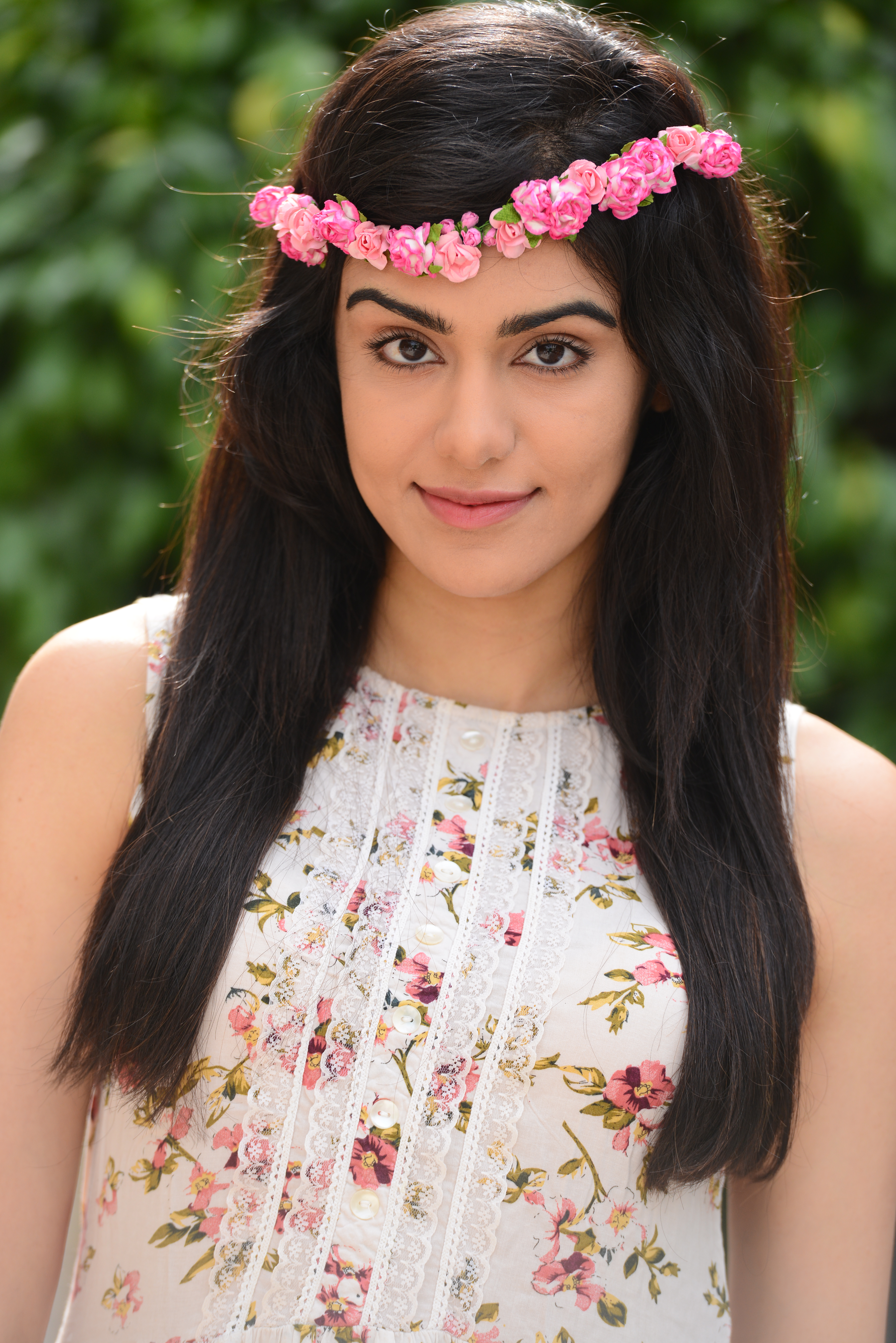 Indian actress